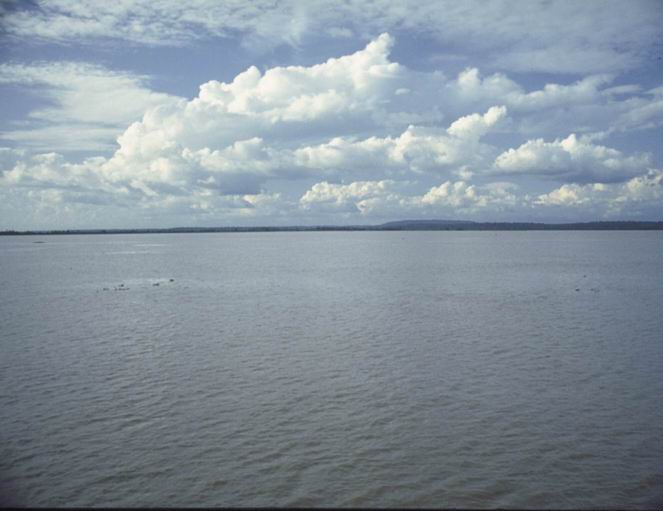 Paraná River created by he:משתמש:בן הטבע